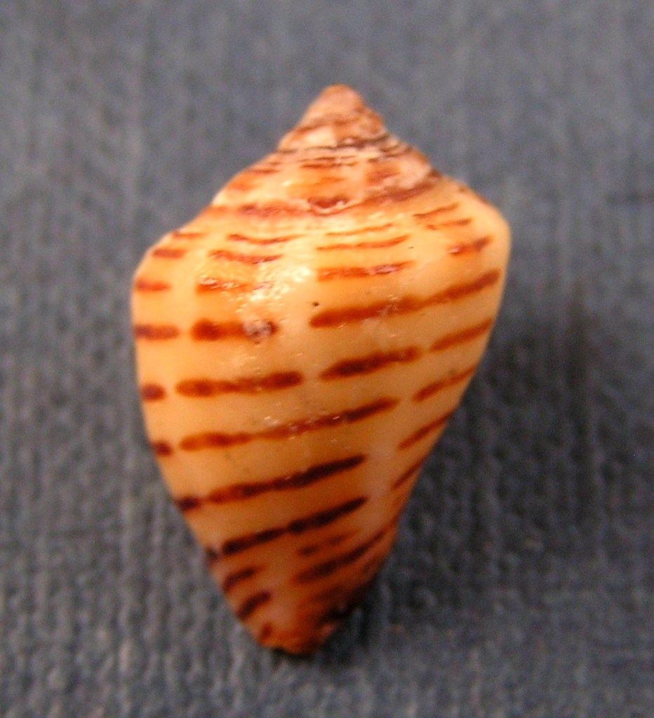 Pinaxia versicolor Gray, 1839, a murex snail from the family Muricidae, Philippines